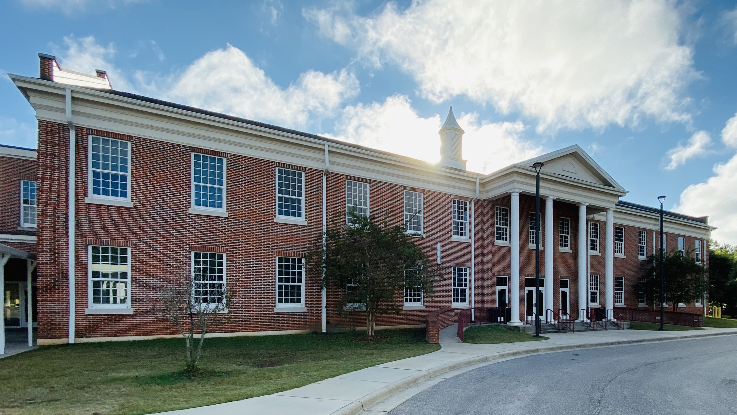 The facade of Andalusia Junior High School, 4th Avenue, Andalusia, Alabama